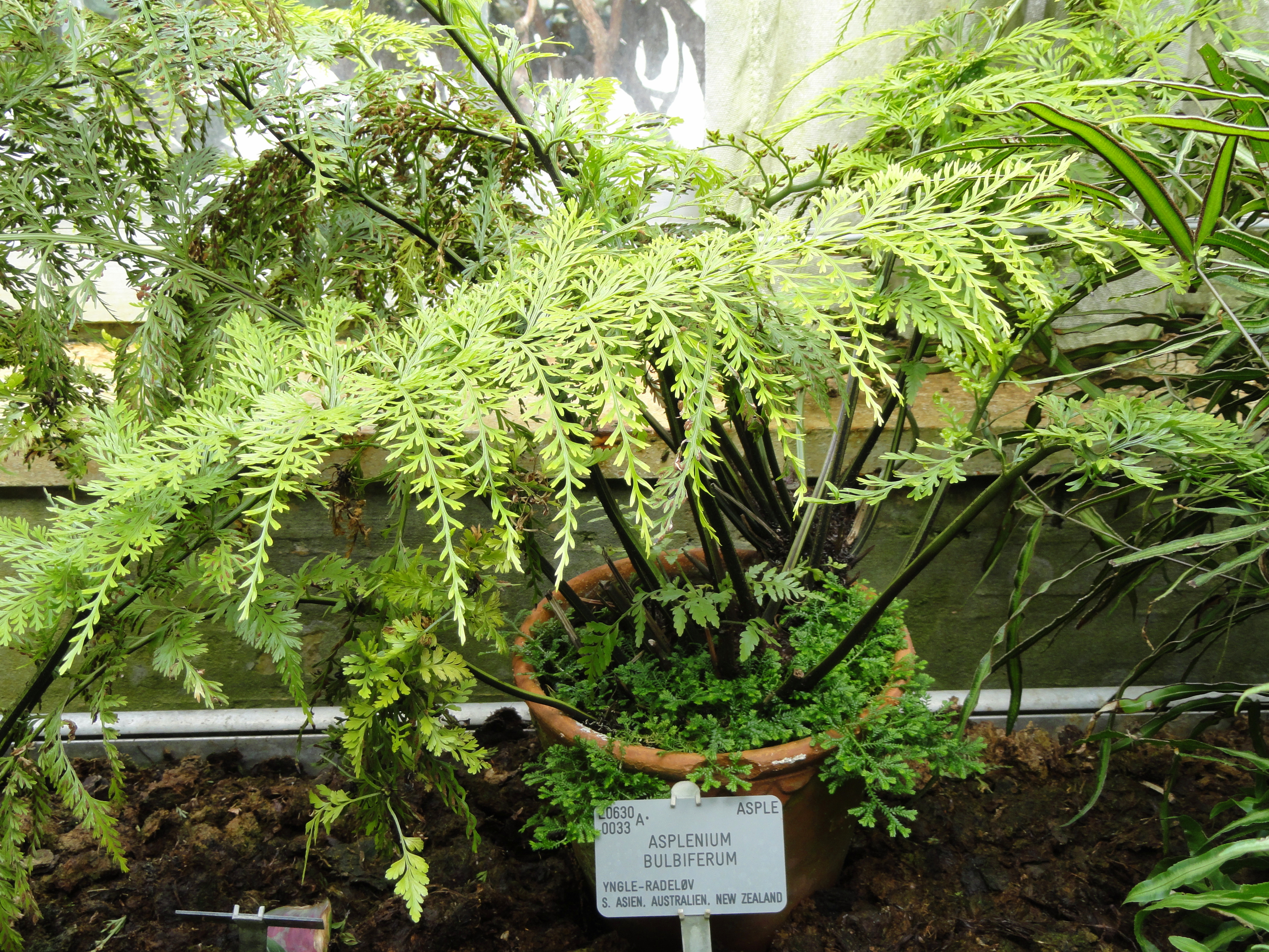 Botanical specimen in the University of Copenhagen Botanical Garden, Copenhagen, Denmark.